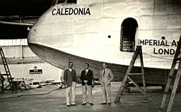 Quantas Empire Airways pilots Lester Brain, Bill Crowther and Bob Gurney (L-R) in England training on Empire flying boats